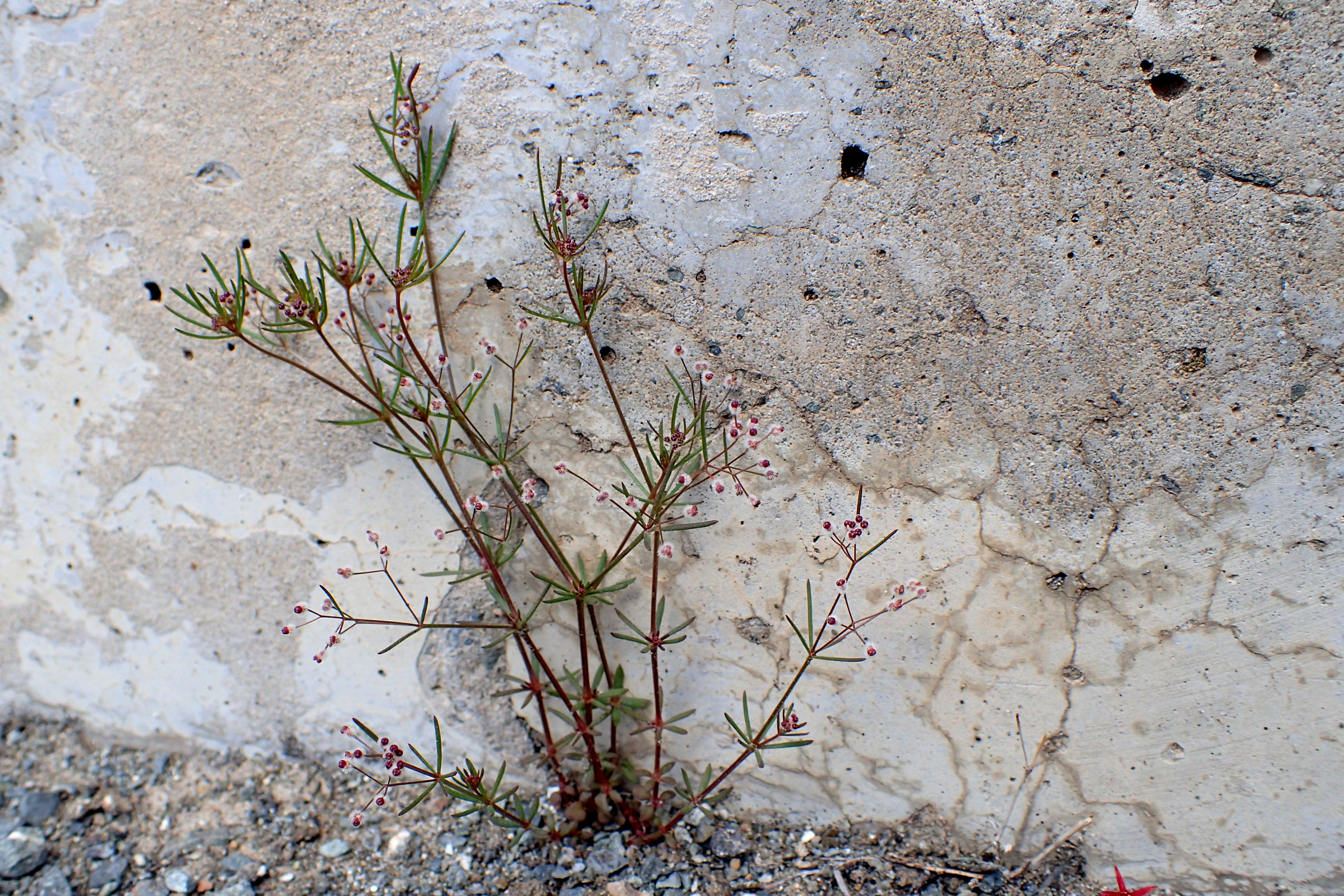 Galium setaceum at Kalavasos Dam, Cyprus